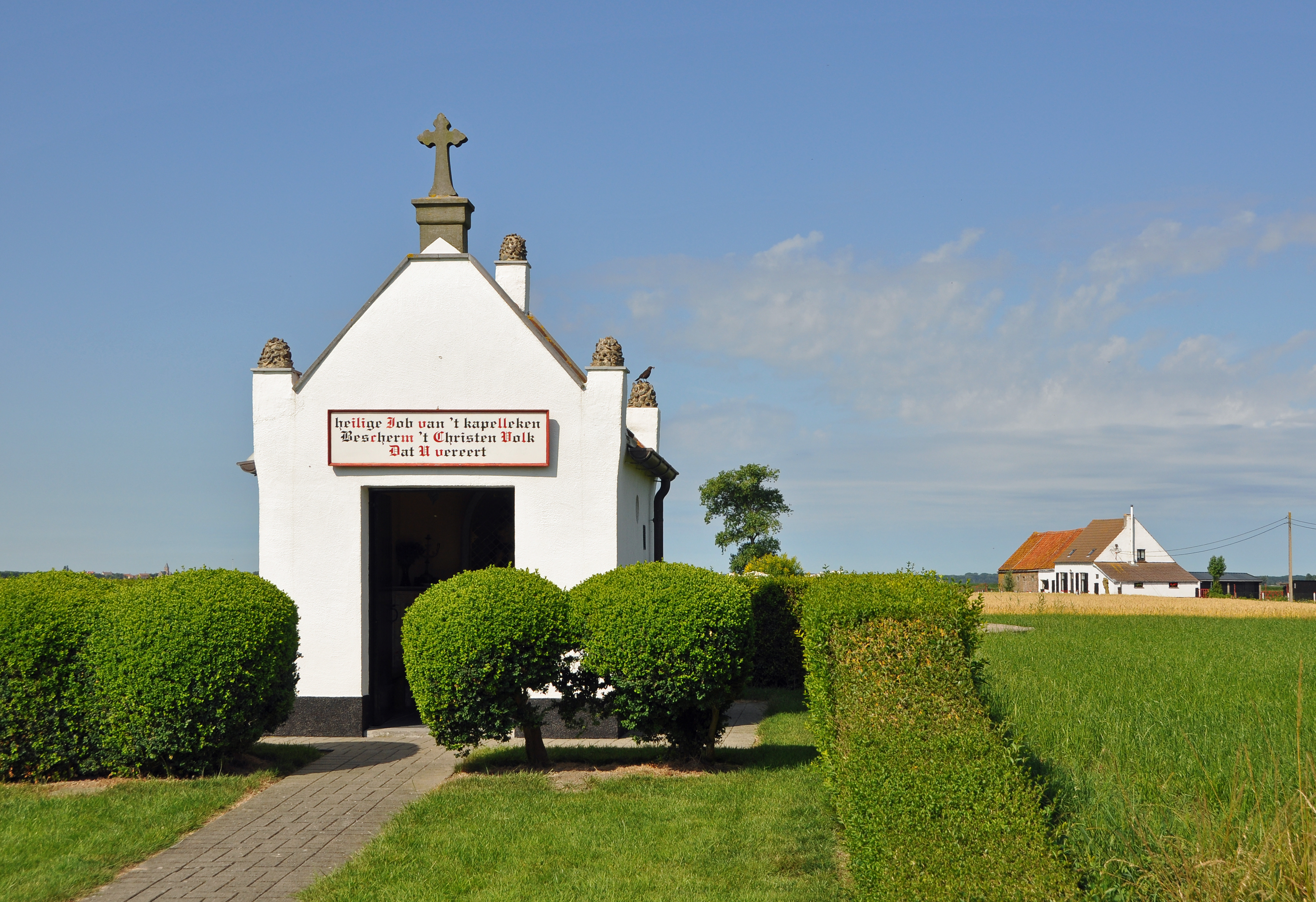 Uitkerke (Blankenberge, Belgium): St Job's chapel